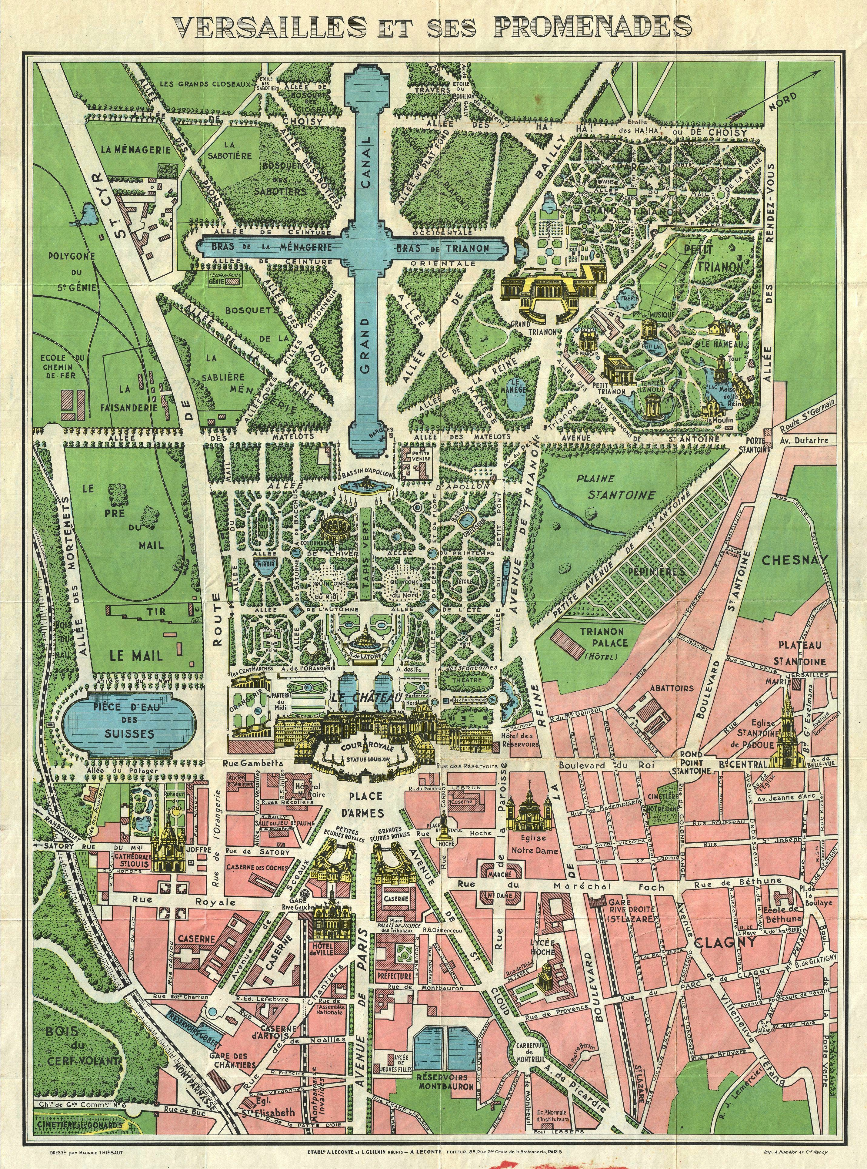 A tourist map with a general plan of Versailles and bird's-eye views of several notable features, including buildings, fountains, and statues. A similar map of Paris, titled Paris et ses Monuments, is printed on the other side.